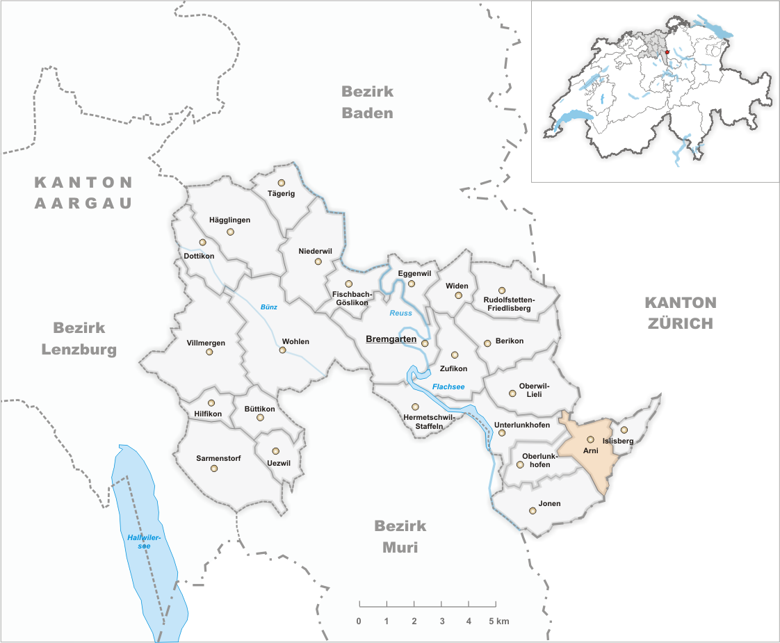 Municipality Arni